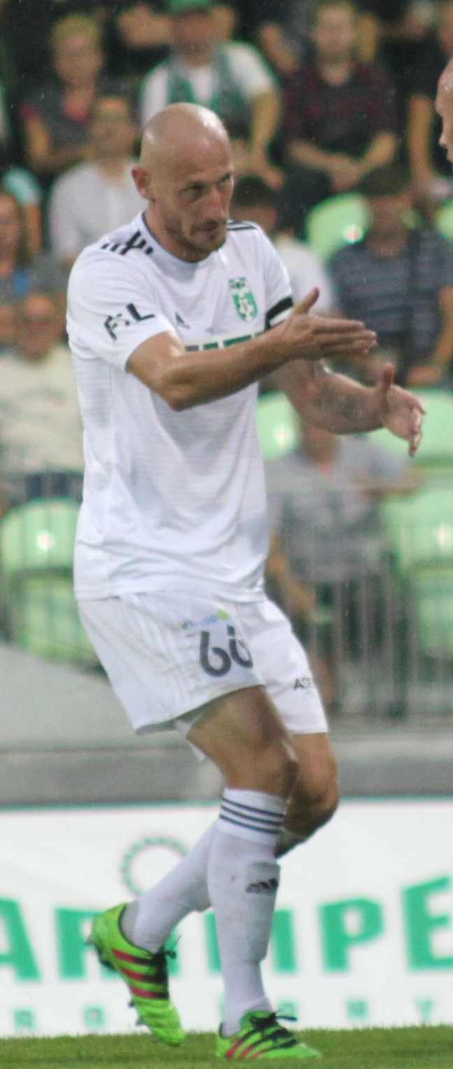 Lukáš Budínský during association football match MFK Karviná-1. FC Slovácko (2:1) on 2nd Semtemper 2018